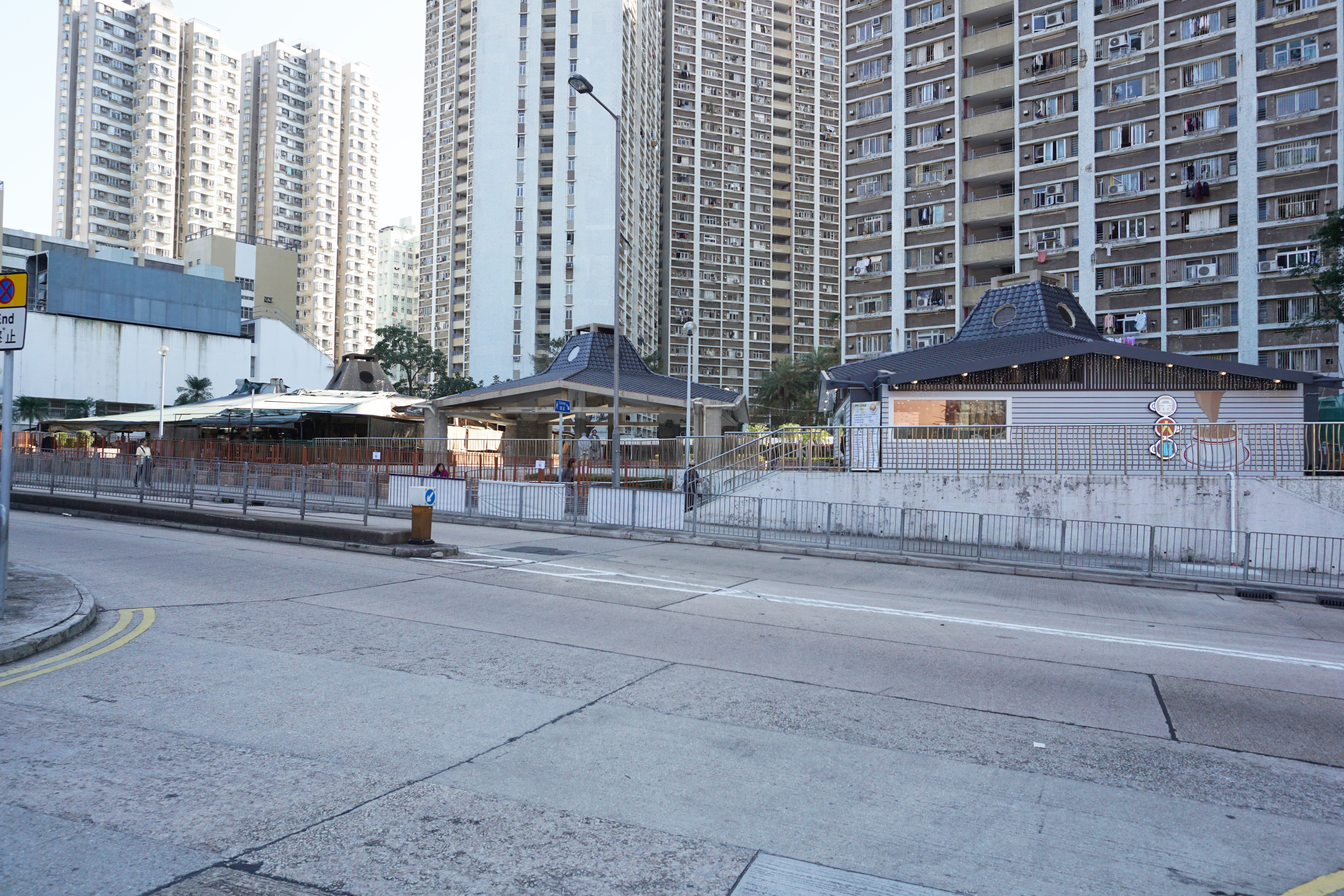 Lok Wah South Estate in Nagu Tau Kok, Hong Kong.